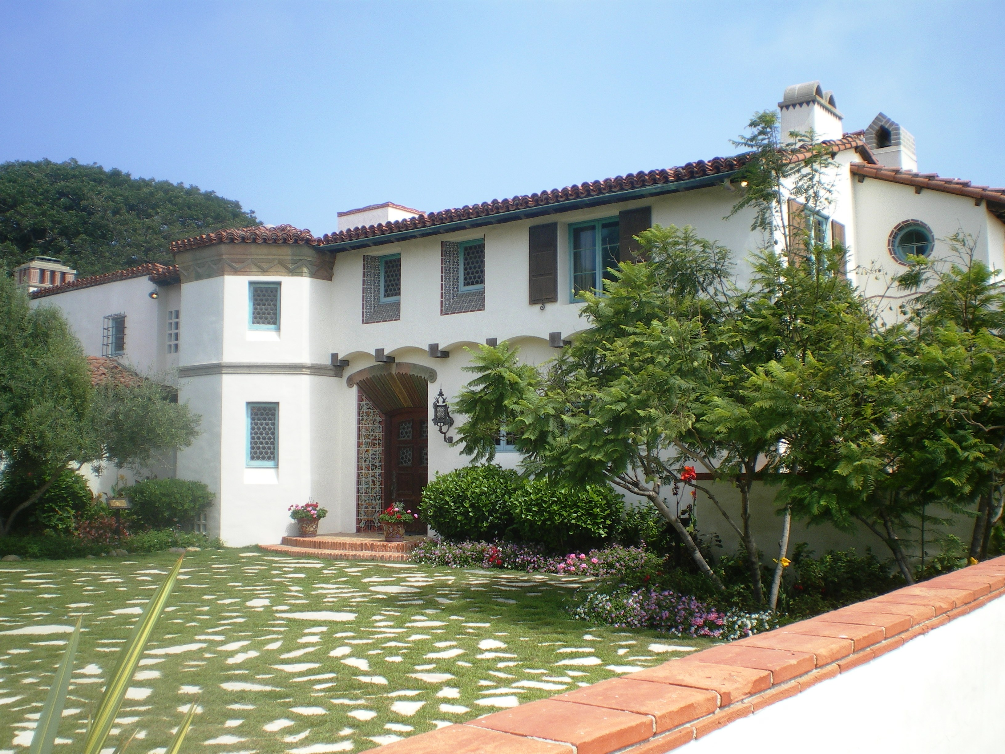 The Adamson House, entry courtyard and front facade — located on Pacific Coast Highway in Malibu, California. Designed by Morgan, Walls & Clements.